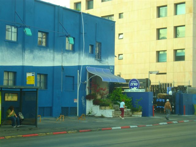 Tara Dairy management building. Yigal Alon St., Tel-Aviv